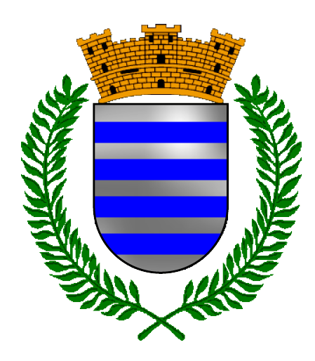 Based on Cataño seal.gif but with transparent background